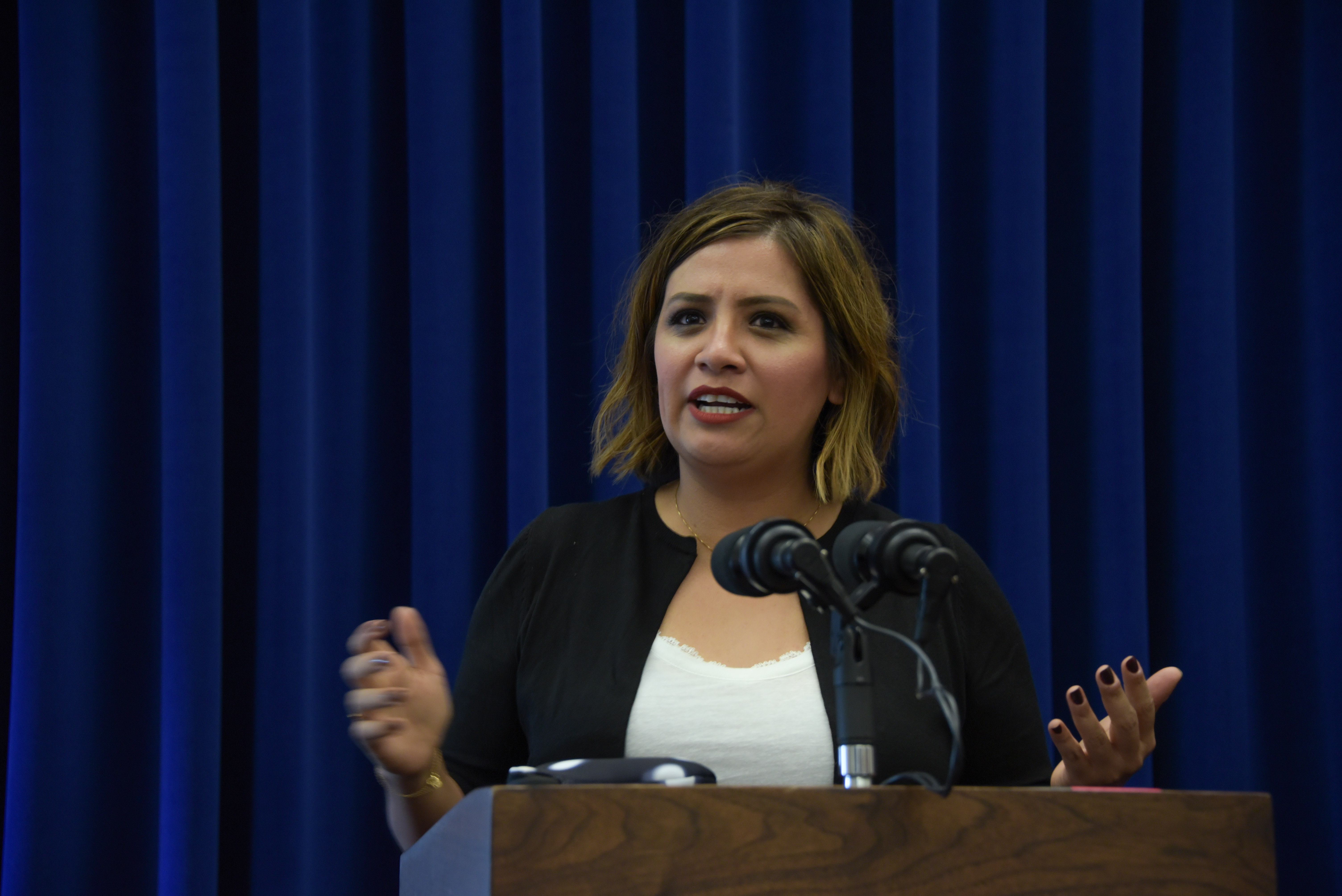 WASHINGTON - Director of U.S. Citizenship and Immigration Services León Rodríguez and Deputy Secretary of Homeland Security Alejandro Mayorkas deliver remarks during the four-year anniversary of President Barack Obama’s Deferred Action Childhood Arrivals initiative. Under DACA, eligible individuals who pass a background check and meet specific age, education, and U.S. residency requirements, are granted a temporary reprieve from deportation and are eligible to receive a renewable two-year work permit. Official DHS photo by Jetta Disco.